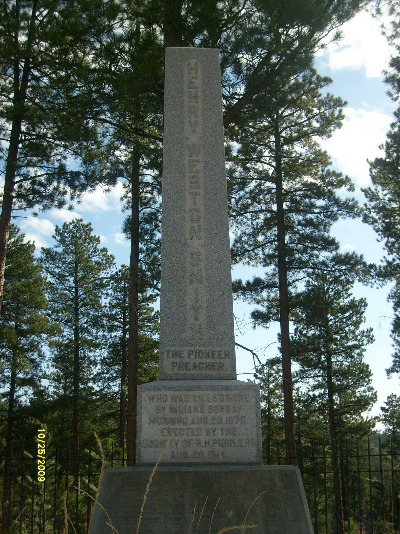 Picture taken 10-25-09 of the memorial erected to honor Henry Weston Smith ("Preacher Smith") in Deadwood, South Dakota.